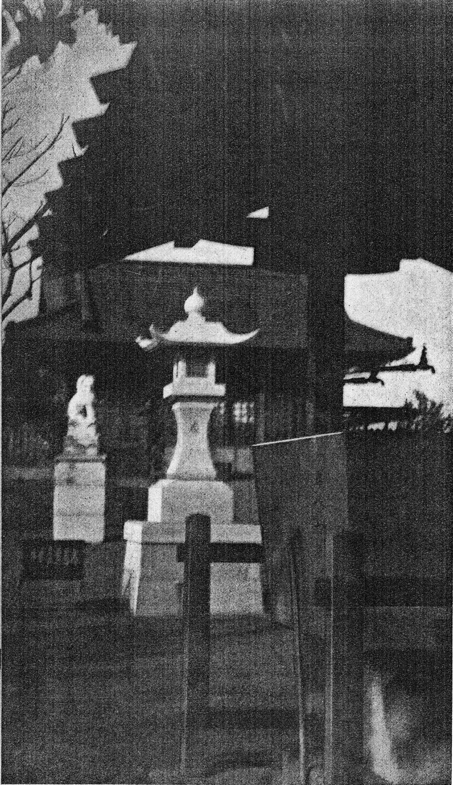 Stone lantern and chozubachi of Seian Shrine.